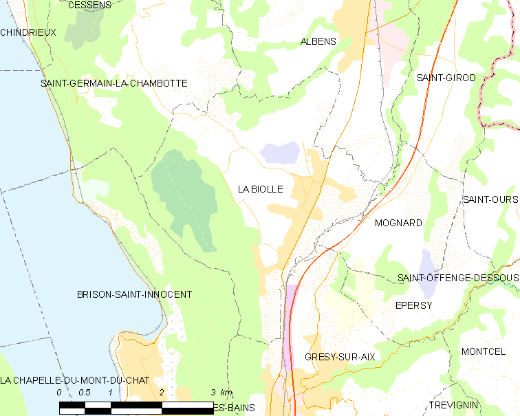 Map of French municipality